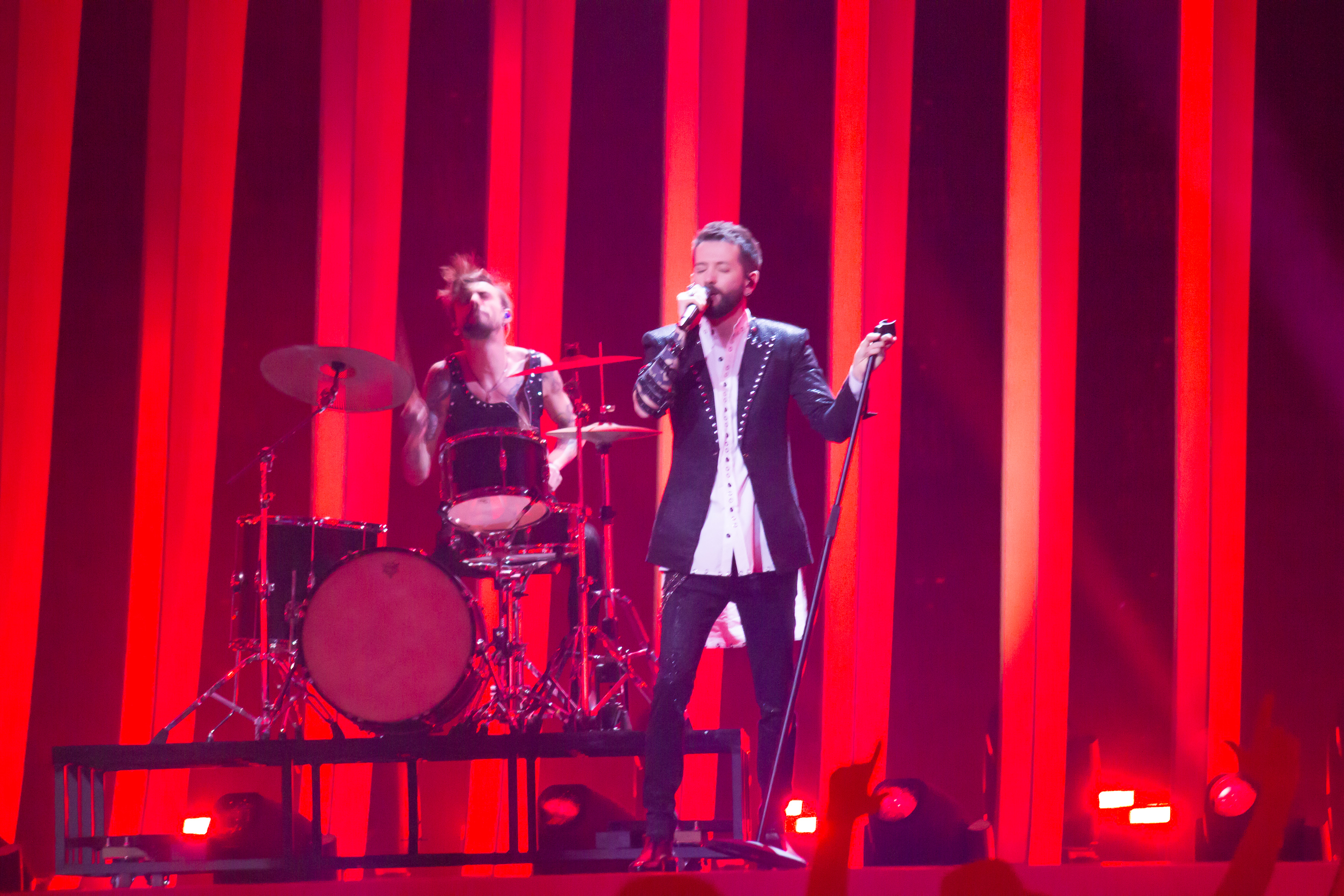 Eugent Bushpepa representing Albania with the song "Mall" during a rehearsal before the first semi final of the Eurovision Song Contest 2018 in Lisbon.